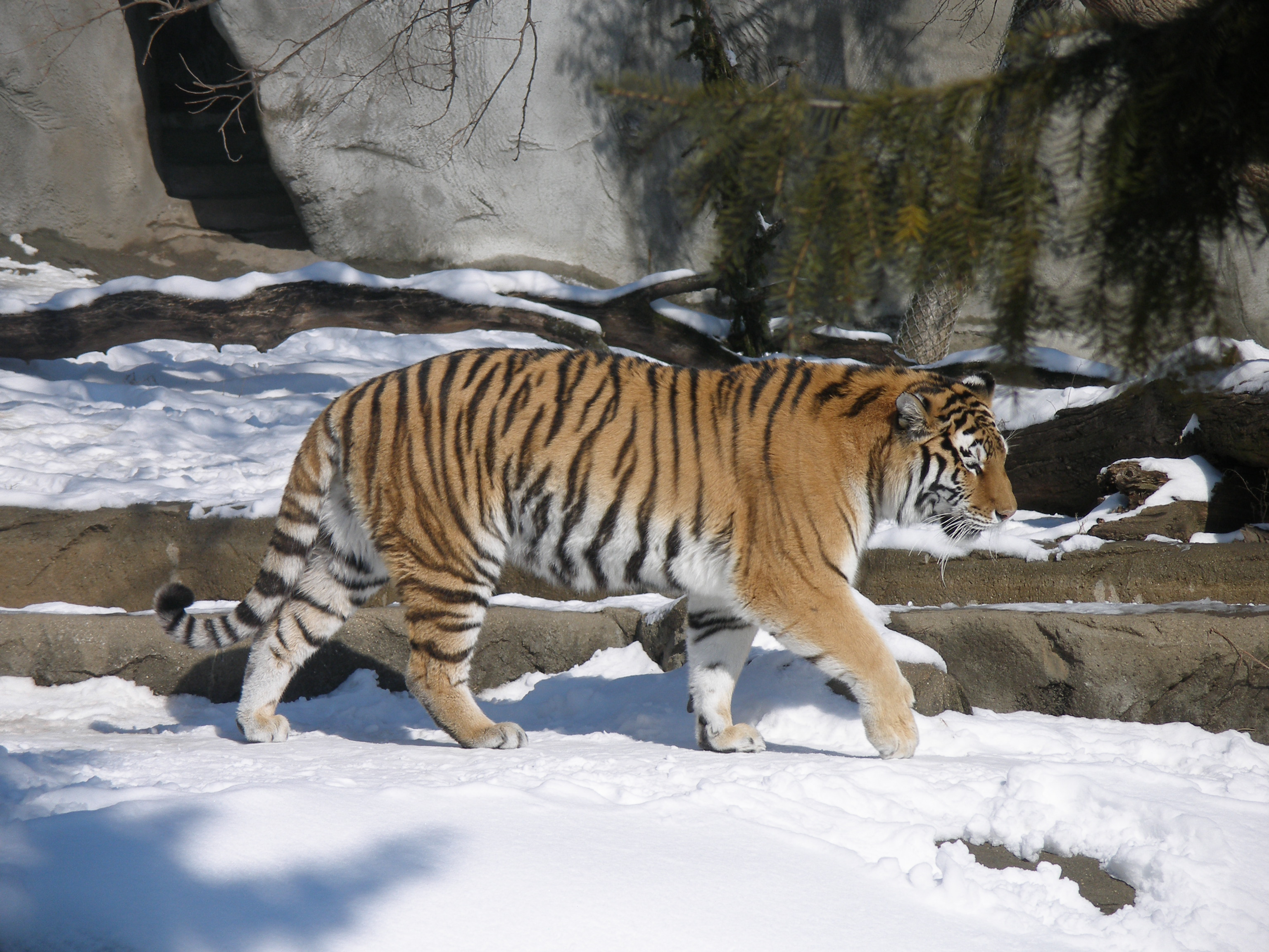 Bengal Tiger from the Detroit Zoo.